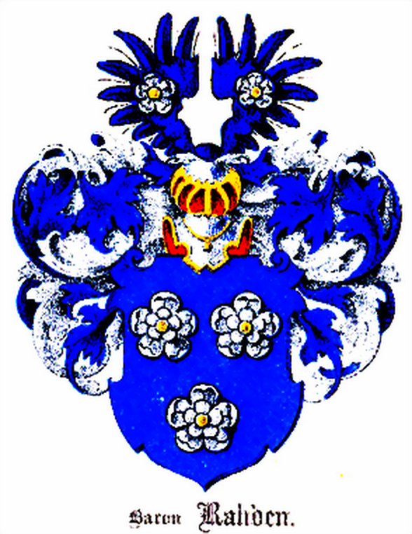 Coat of arms of Baron Rahden family